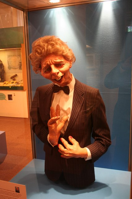 Margaret Thatcher. Grantham's most famous daughter 327245 - a caricature used in the 'Spitting Image' TV series, now a prized exhibit in Grantham Museum